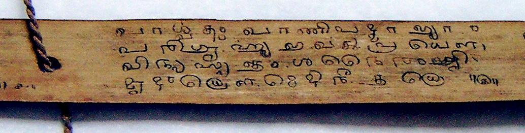 Photograph of an original palm leaf manuscript containing Grantha alphabet for Sanskrit. This is cropped version of File:Tamil-Palm-1.JPG showing its middle section only. See full version at source file